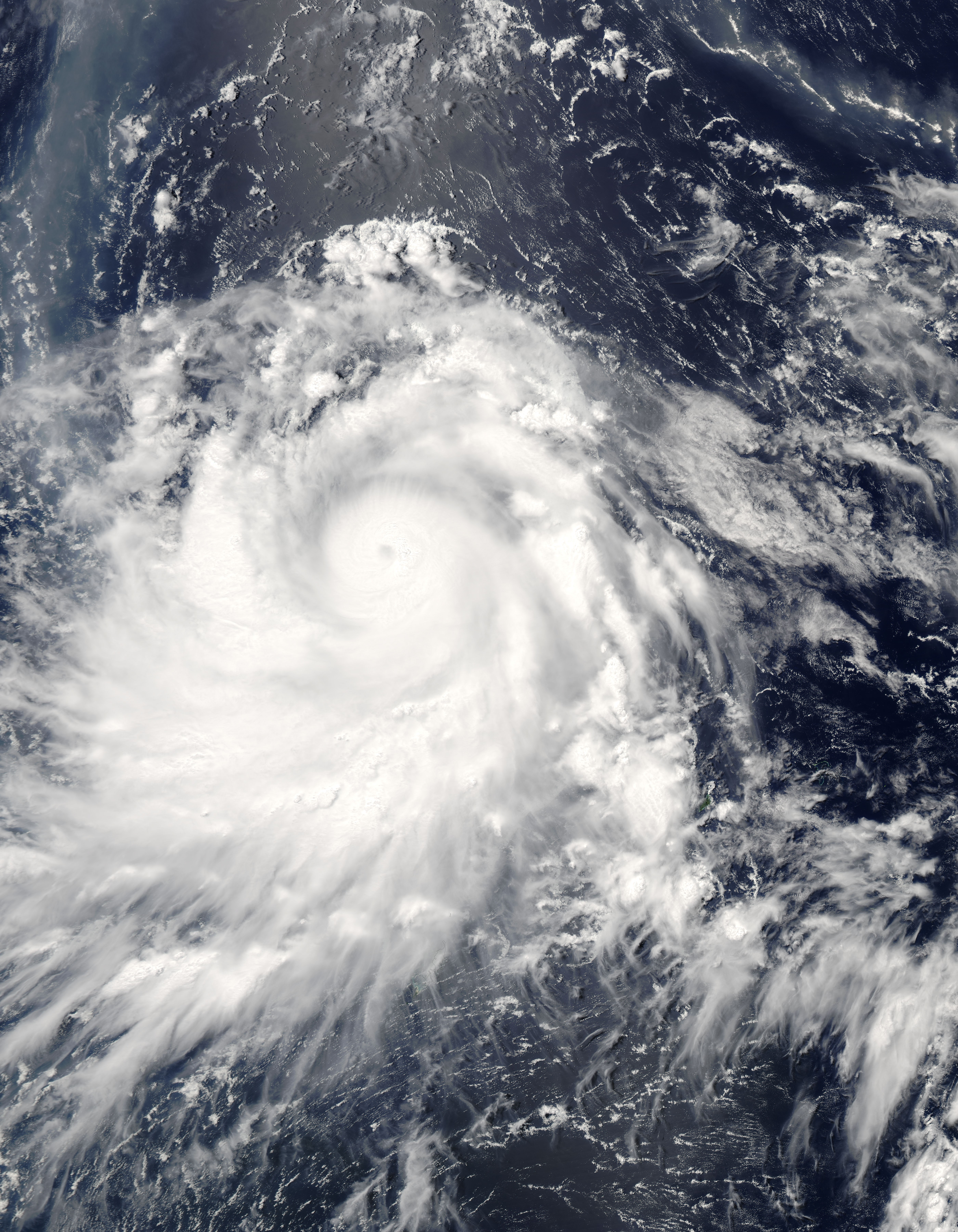 Typhoon Nesat spins over the Philippine Sea in this Moderate Resolution Imaging Spectroradiometer (MODIS) image acquired on June 3, 2005, by NASA’s Aqua satellite. At the time, Nesat had winds of 213 kilometers per hour (132 mph) with gusts to 259 kph (161 mph), making it the equivalent of a Category 4 hurricane. The storm formed near Guam on May 30 and moved slowly west northwest over the following four days. On June 3, Nesat skirted the Philippines as it curved northeast towards Japan. It is expected to miss the island nation as it moves east over the North Pacific. To the north of the typhoon, a white and brown plume of ash and steam drifts across the ocean from the Anatahan volcano. Located in the Northern Mariana Islands, just beyond the right edge of the image and immediately north of where Nesat formed, the volcano has been erupting for much of 2005. The ash plume cuts northwest across the upper right corner of the image, then curves sharply down across the upper left corner of the image. To the left of the center of the image, a silvery strip is formed by the reflection of the sun off the water’s surface.